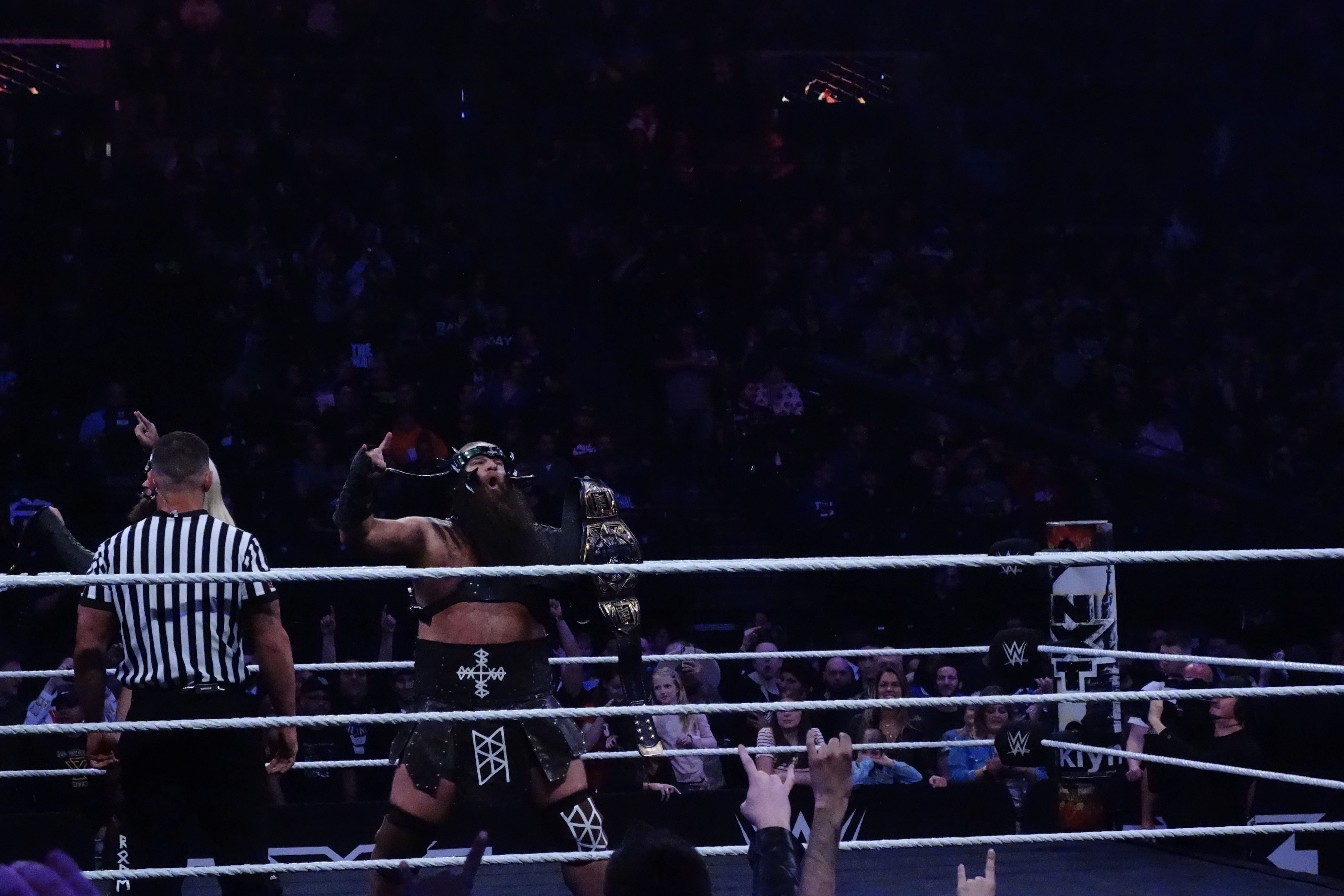 Hanson